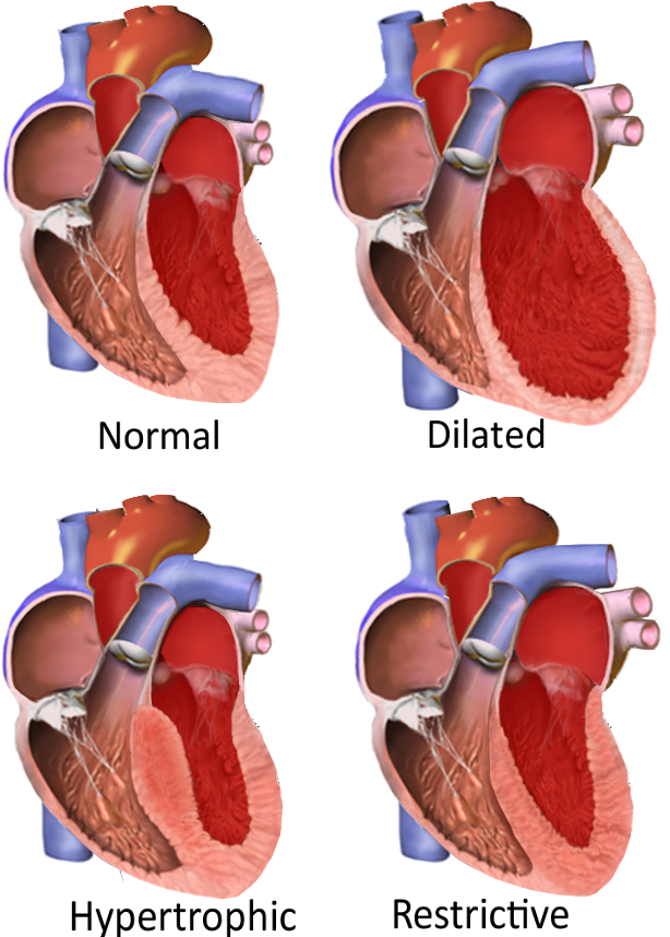 Major categories of cardiomyopathy. Adapted by npatchett from user BruceBlaus (Blausen Medical)